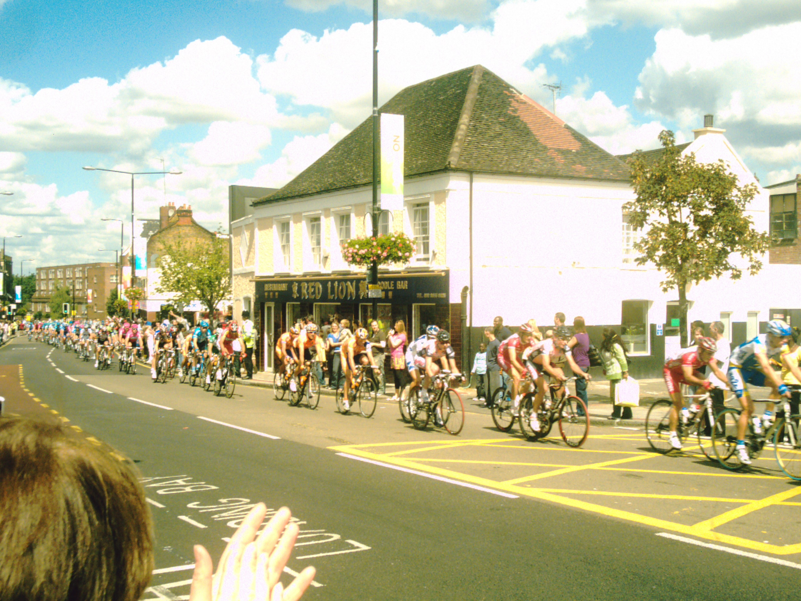 Le Tour de France passing through Plumstead, London. Originally uploaded by Danielherbert me as Image:CRIM0196.JPG.